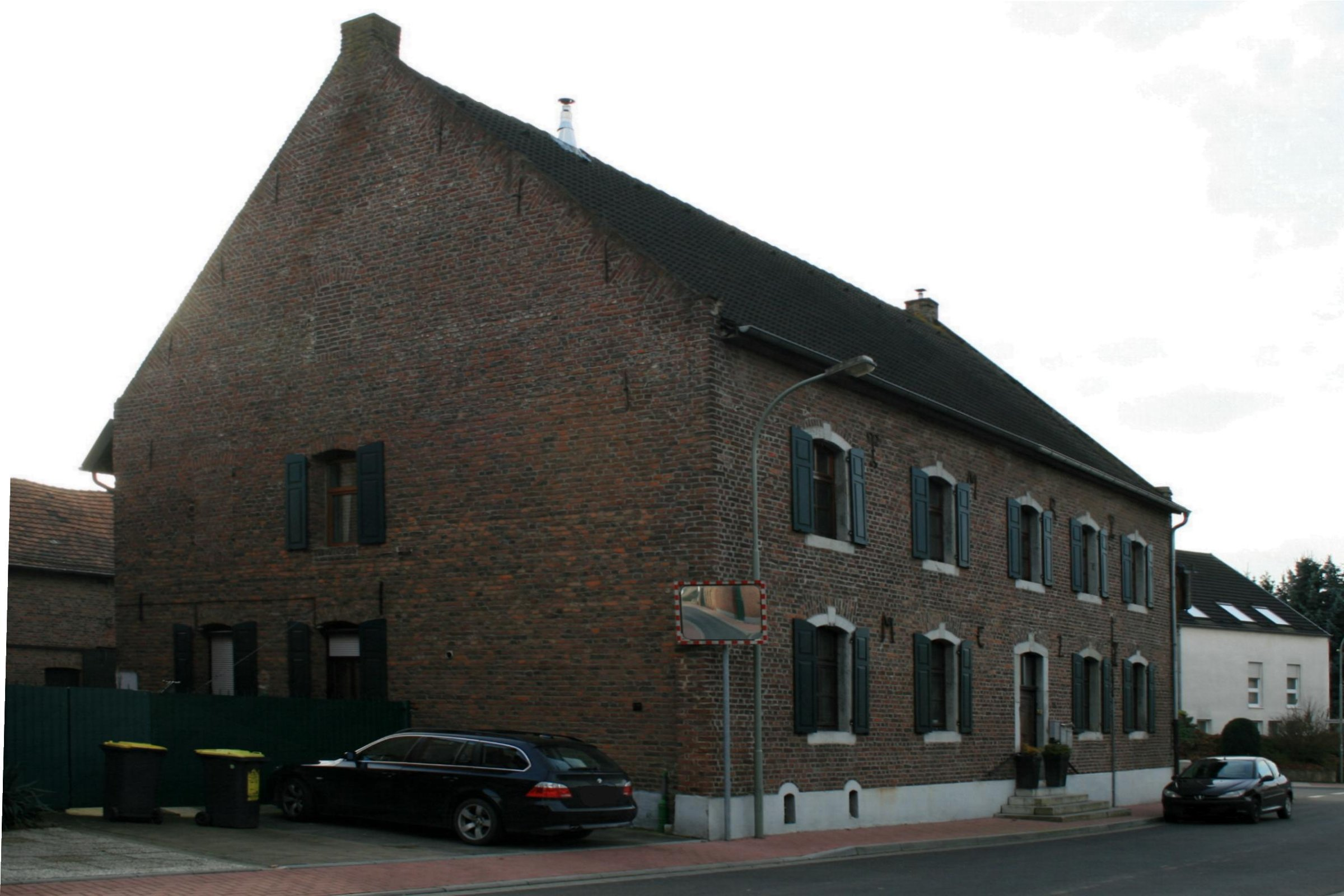 Cultural heritage monument No. 21 in Aldenhoven